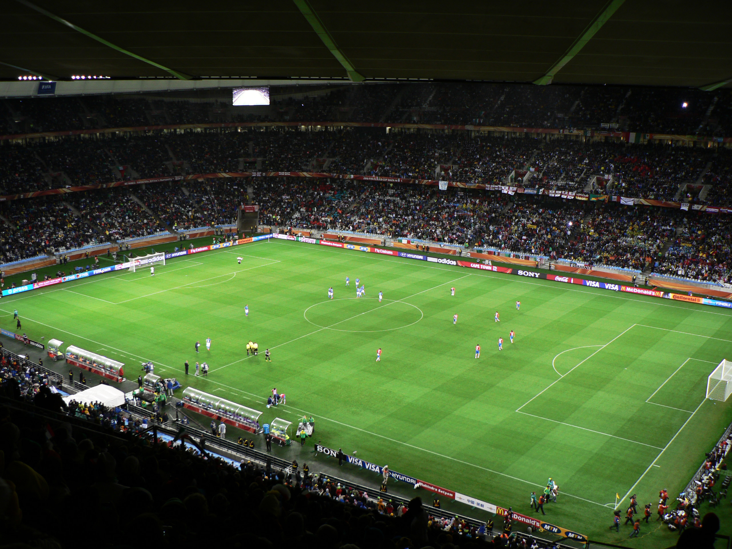 Match kick-off between Italy and Paraguay at FIFA World Cup 2010, 14 June 2010, Green Point Stadium, Cape Town